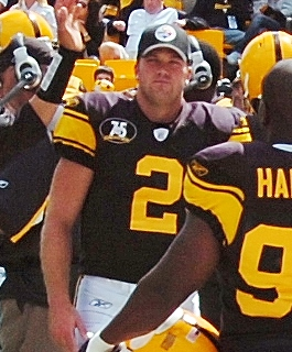 Pittsburgh Steelers backup quarterback Brian St. Pierre